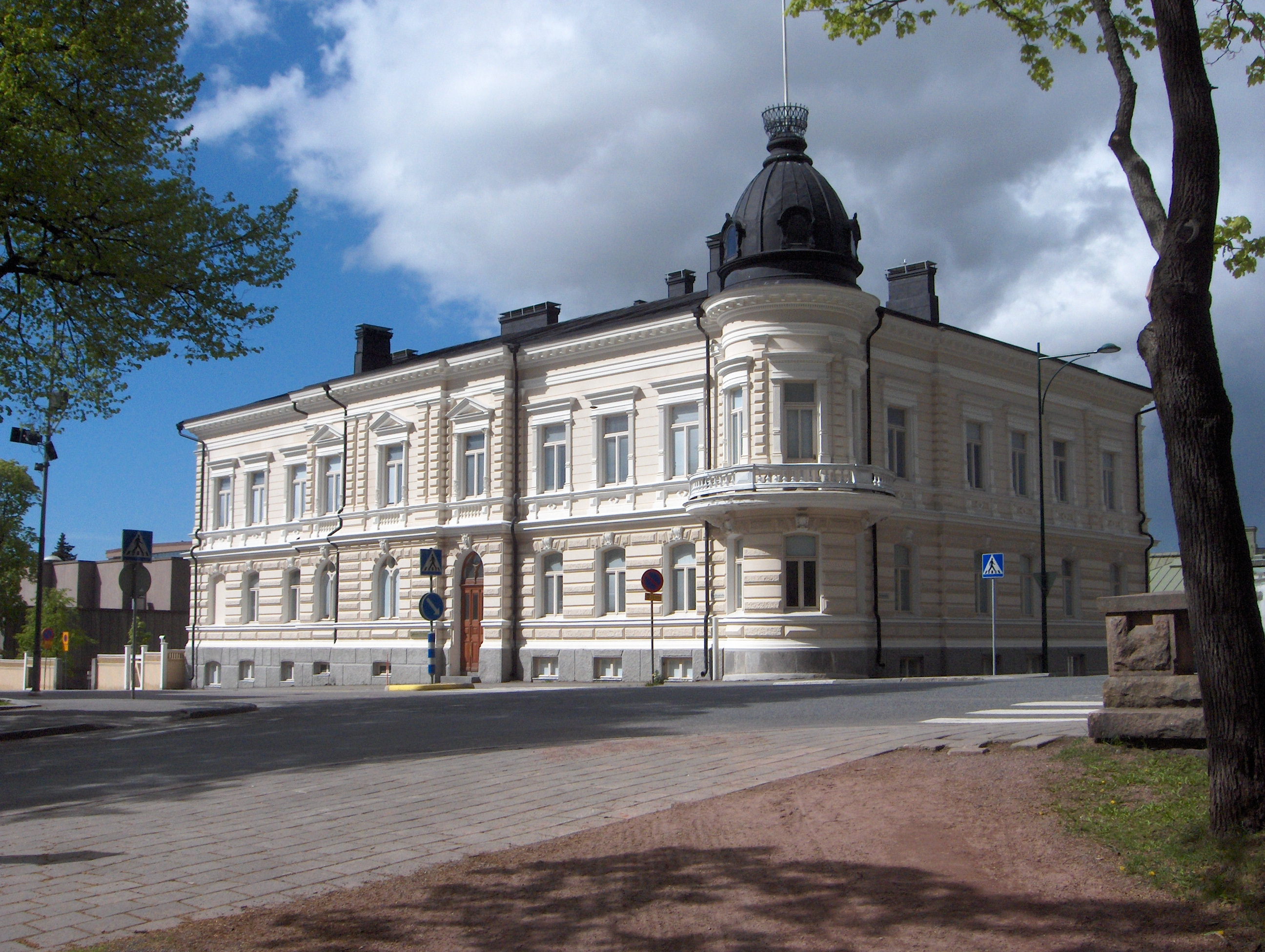 Church Registry Office of Pori, Finland. Designed by architect Ricardo Björnberg to sea captain Oscar Heine. Was completed in 1893.